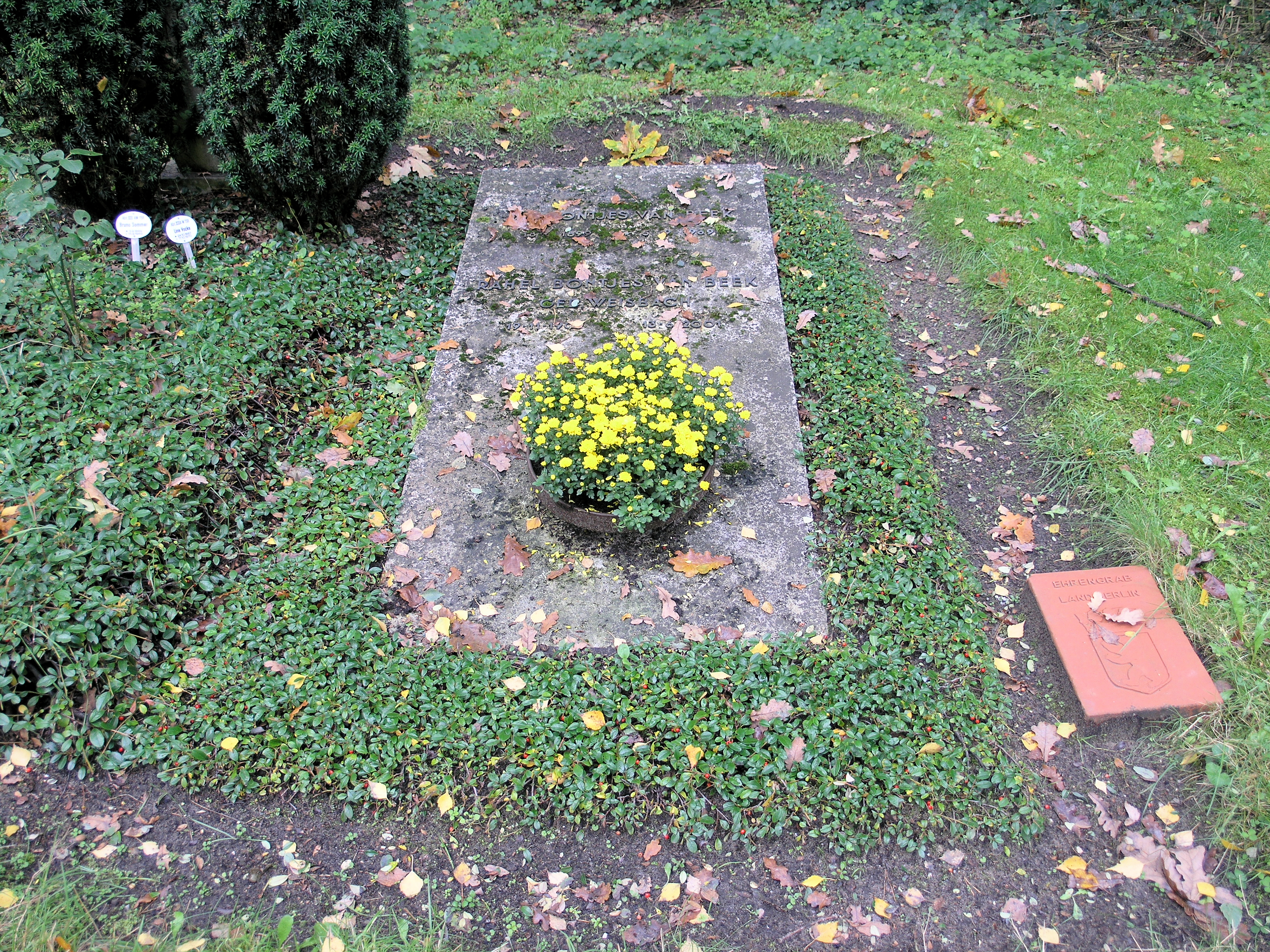 "Ehrengrab" (grave of honor), Jan Bontjes van Beek, Potsdamer Chaussee 75, Berlin-Nikolassee, Germany